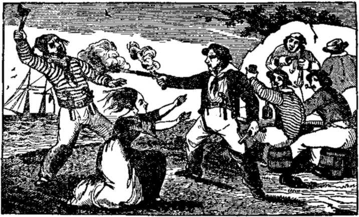 Charles Gibbs shooting a comrade as depicted in The Pirates Own Book by Charles Ellms.